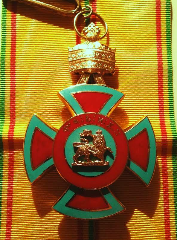 Commander Cross of the Order of Emperor Menelik II, Empire of Ethiopia